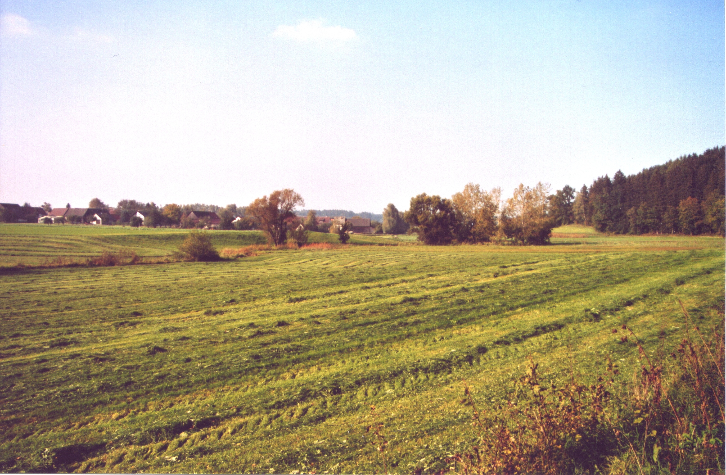 Description: The valley of the river Biber Photographer: Joe Quimby Date: 23. Octobre 2006